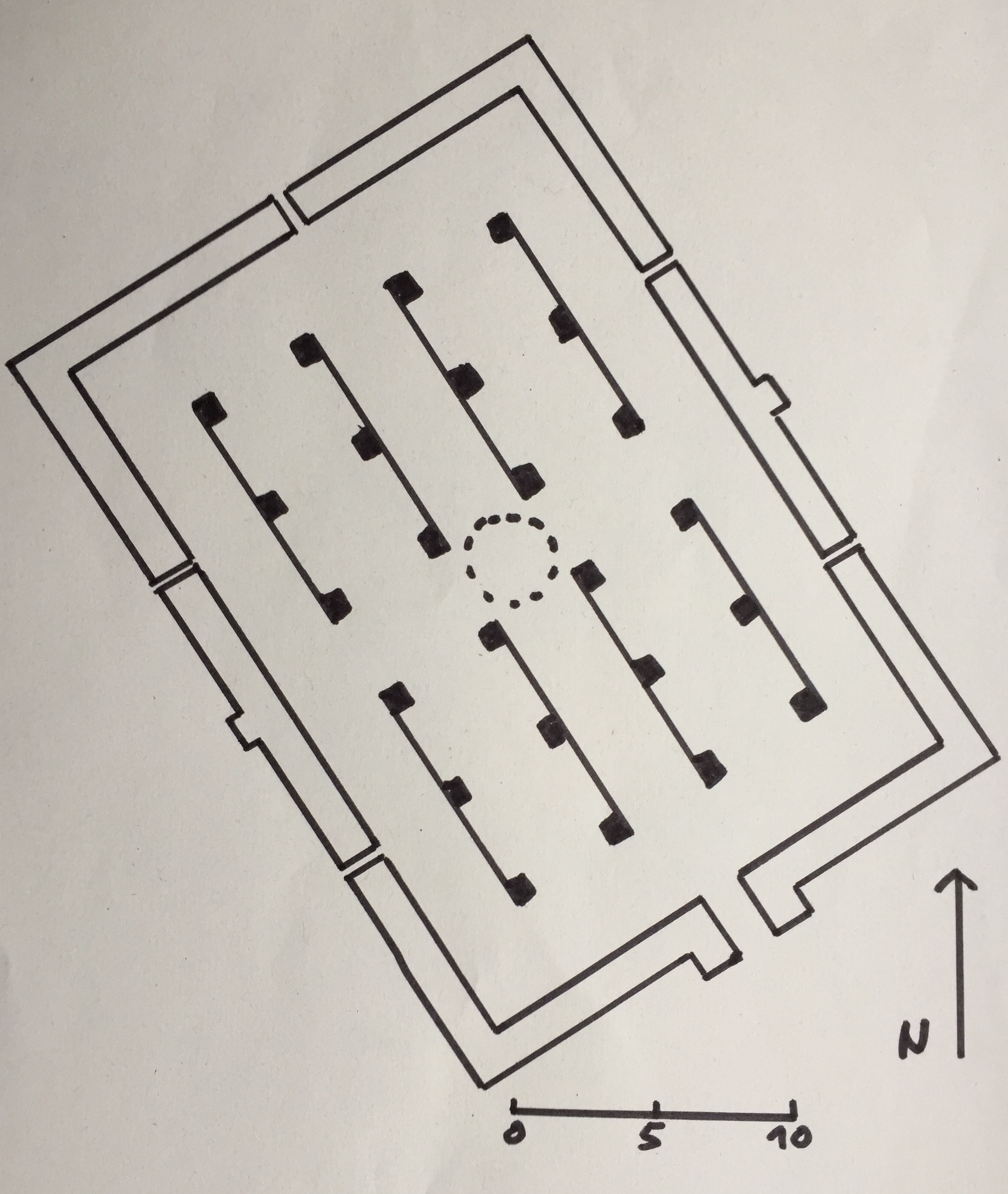 Floor plan of Örsin Han; also Öresun Han, Tepesi Delik Han; built in 1188.